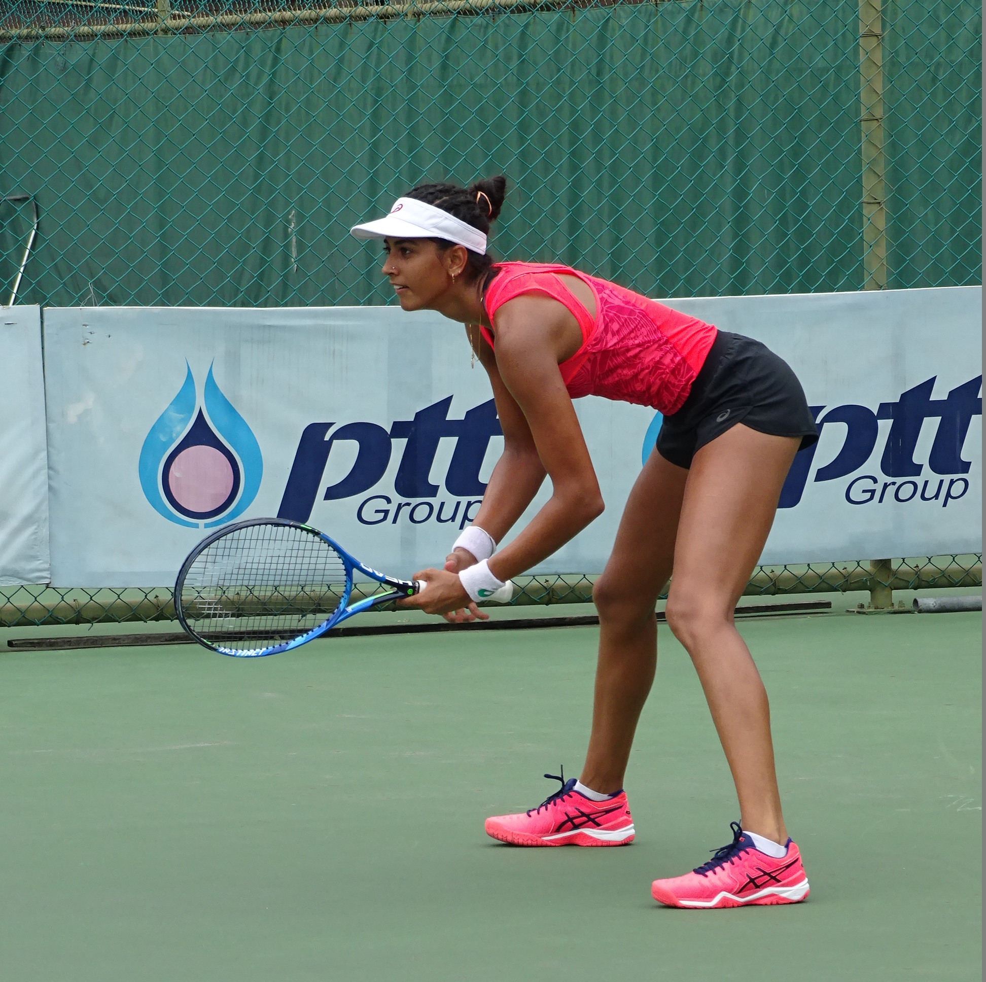 Karman Kaur Thandi at the ITF Women's Circuit in Nonthaburi 2017